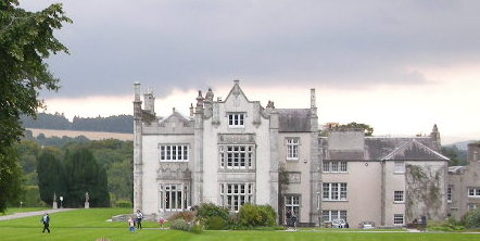 Kilruddery House, Bray, Co. Wicklow, Ireland. Original photo by Spircle. Taken 21.9.08.